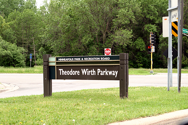 Photograph of Theodore Wirth Parkway in Minneapolis